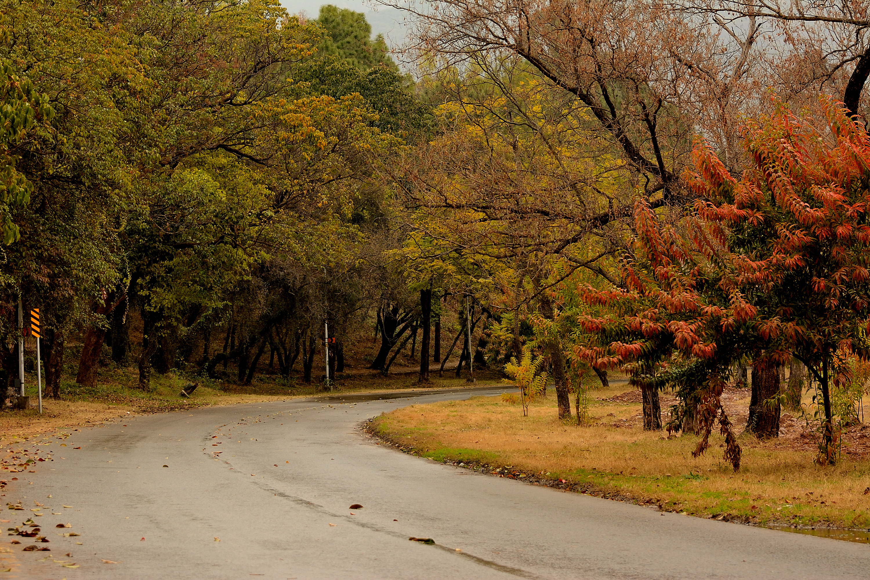 Faisal Masjid - Islamabad after rain